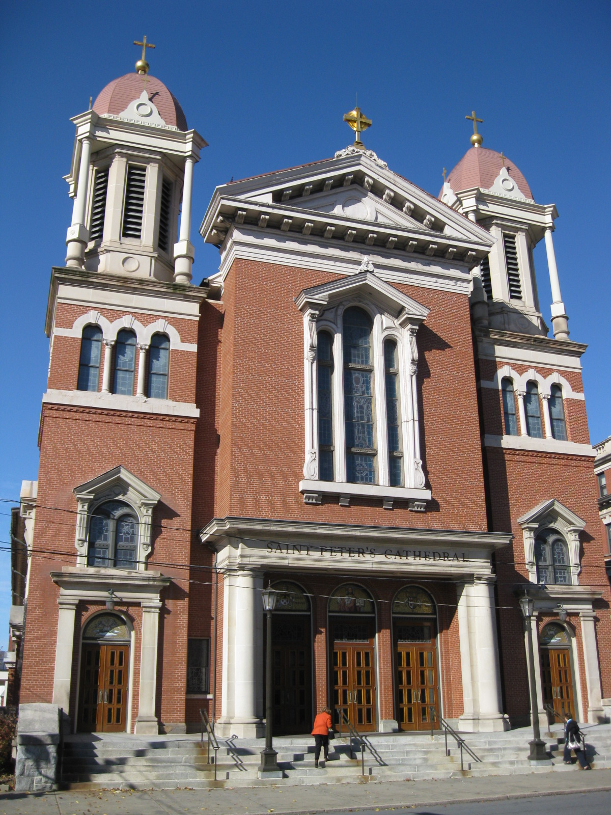 Scranton, Pennsylvania